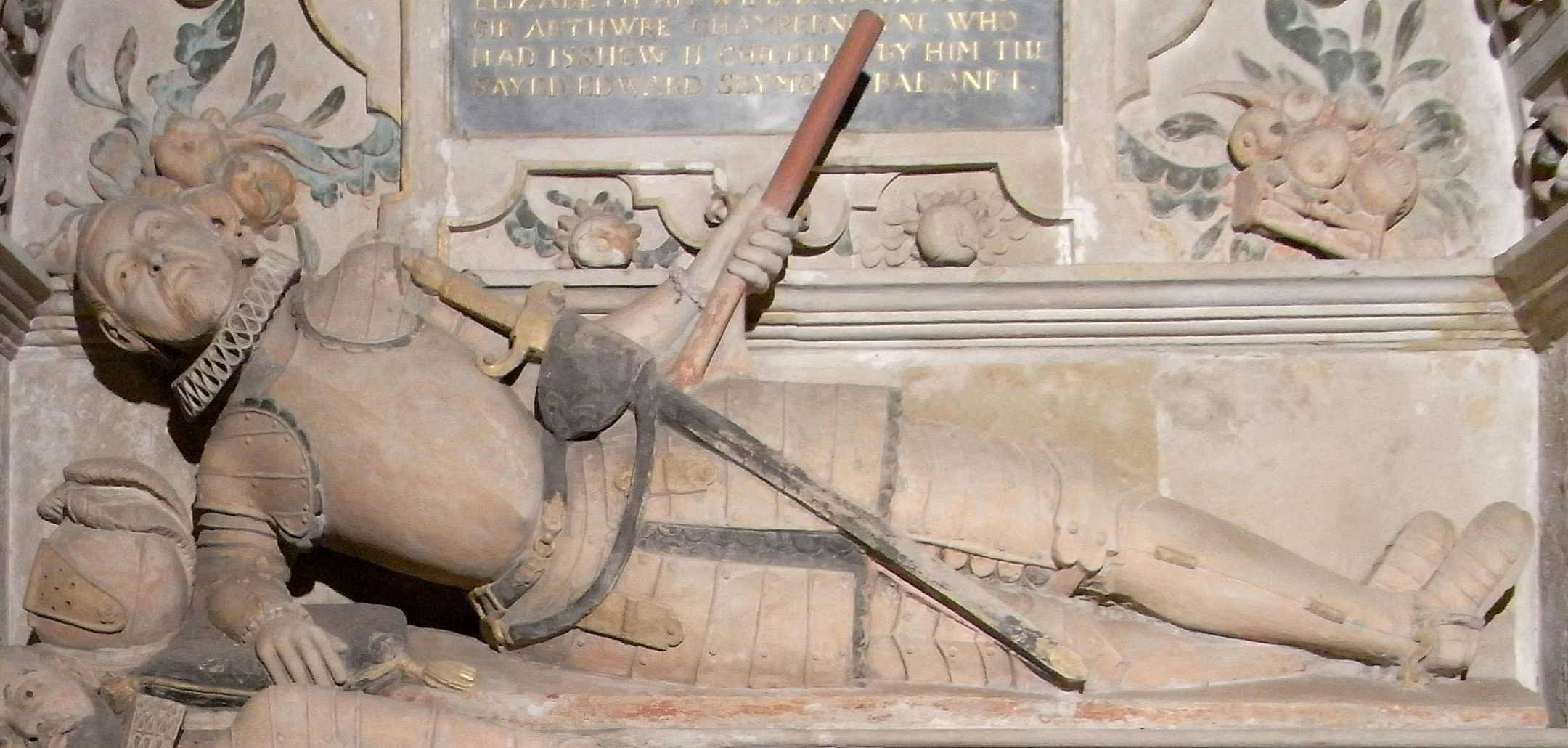 Effigy of Lord Edward Seymour (d.1593), of Berry Pomeroy, detail from his monument in Berry Pomeroy Church, Devon